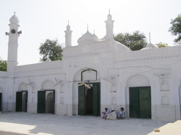 Mia Umar Baba Shrine is situated near Chamkani Bazar.